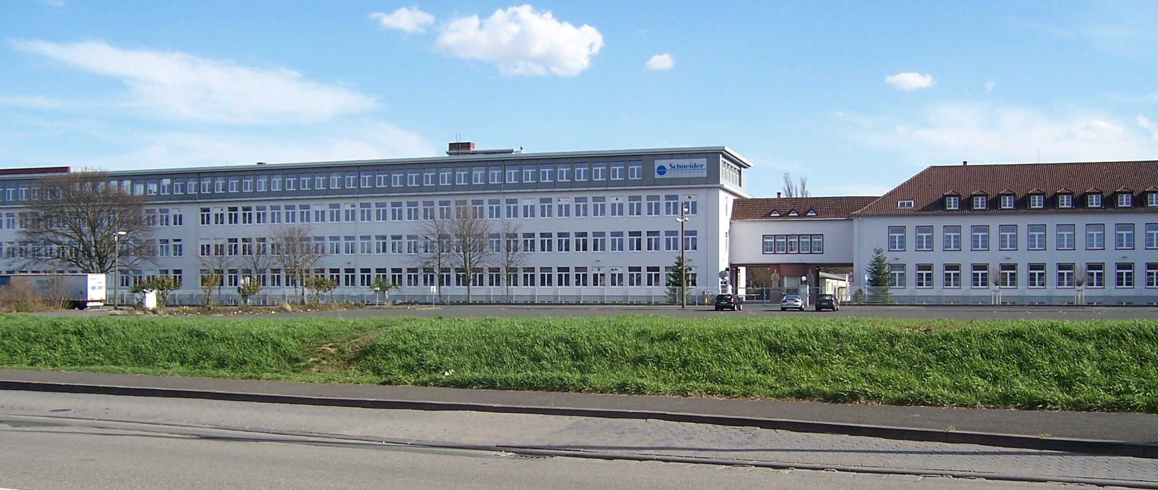 Company domicile of Schneider Kreuznach in Bad Kreuznach